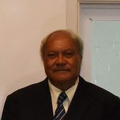 Kiriau Turepu, Cook Islands Minister, in the Cook Islands Cabinet Room, March 2017